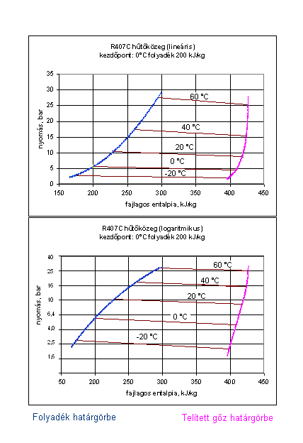 R407C refrigerant pressure-enthalpy diagram, linear and logarithmic